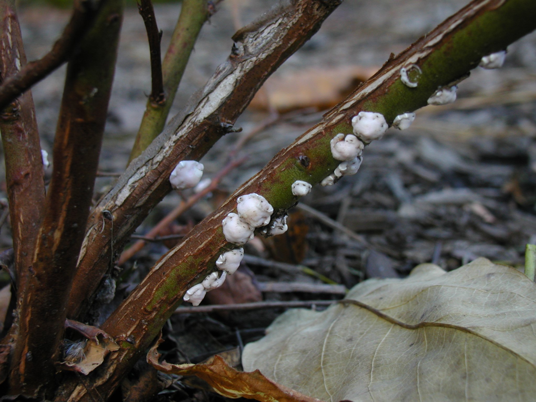 Oystershell scale on a young blueberry bush, Gladwynne, PA, USA